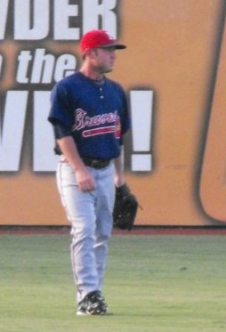 Matt Young in centerfield during a game between Mississippi Braves and Chattanooga Lookouts in Chattanooga TN June 20, 2009 taken with my own Camera Camera Brand: FUJIFILM Camera Model: FinePix S1000fd Image Type: jpeg (The JPEG image format) Width: 3648 pixels, Height: 2736 pixels- original size (cropped for better image) Date Taken: 2009:06:20 08:06:05